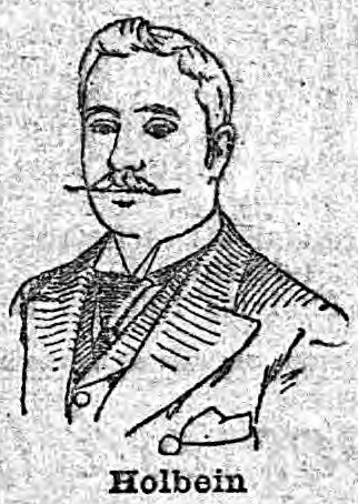 Montague Holbien, second finisher of Bordeaux-Paris 1891, Le Petit Journal 25 Mai